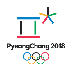 Pyeongchang 2018 Olympic official emblem